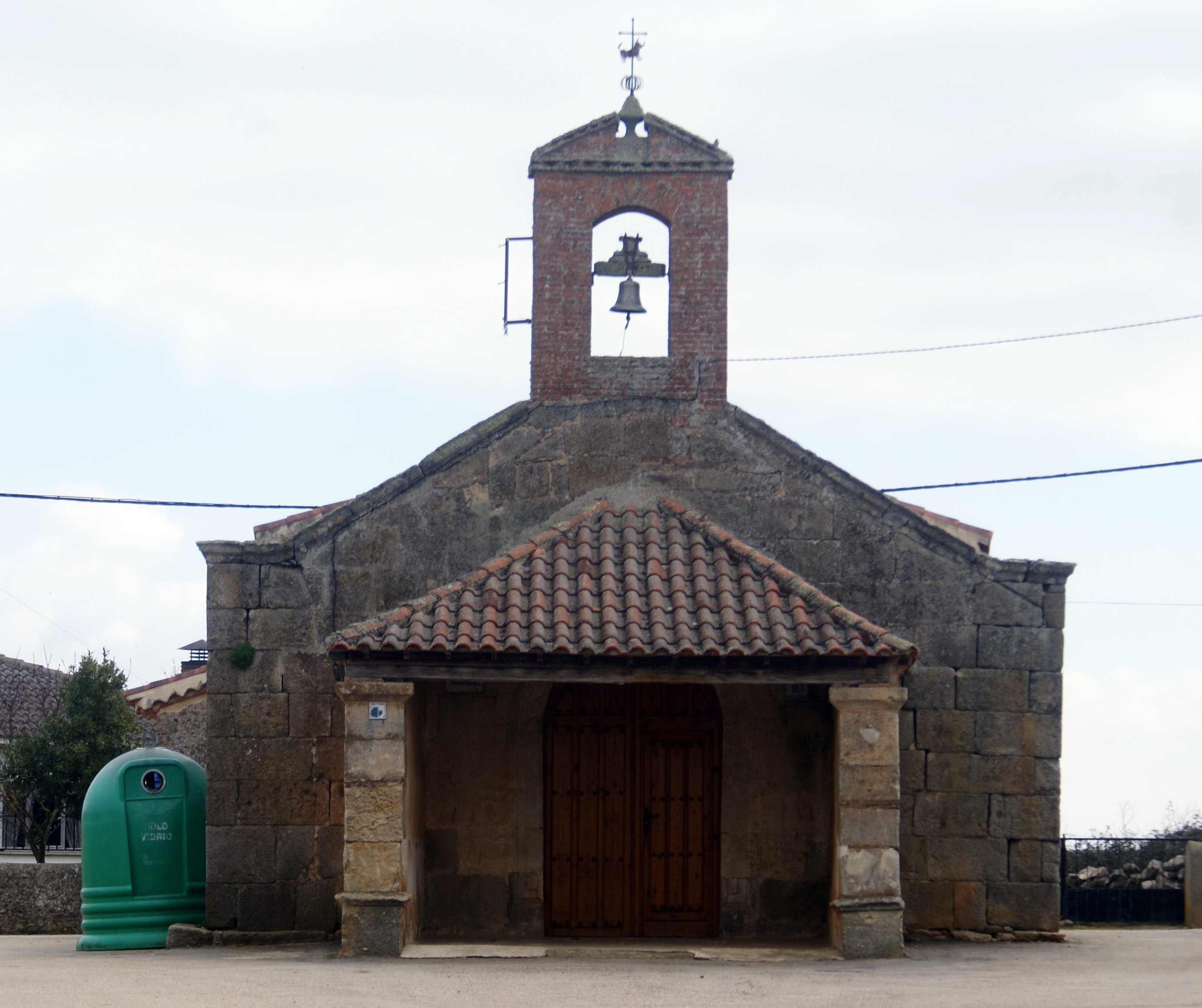 Hermitage of the Virgen de las Nieves in Villarmayor, Salamanca, Spain.